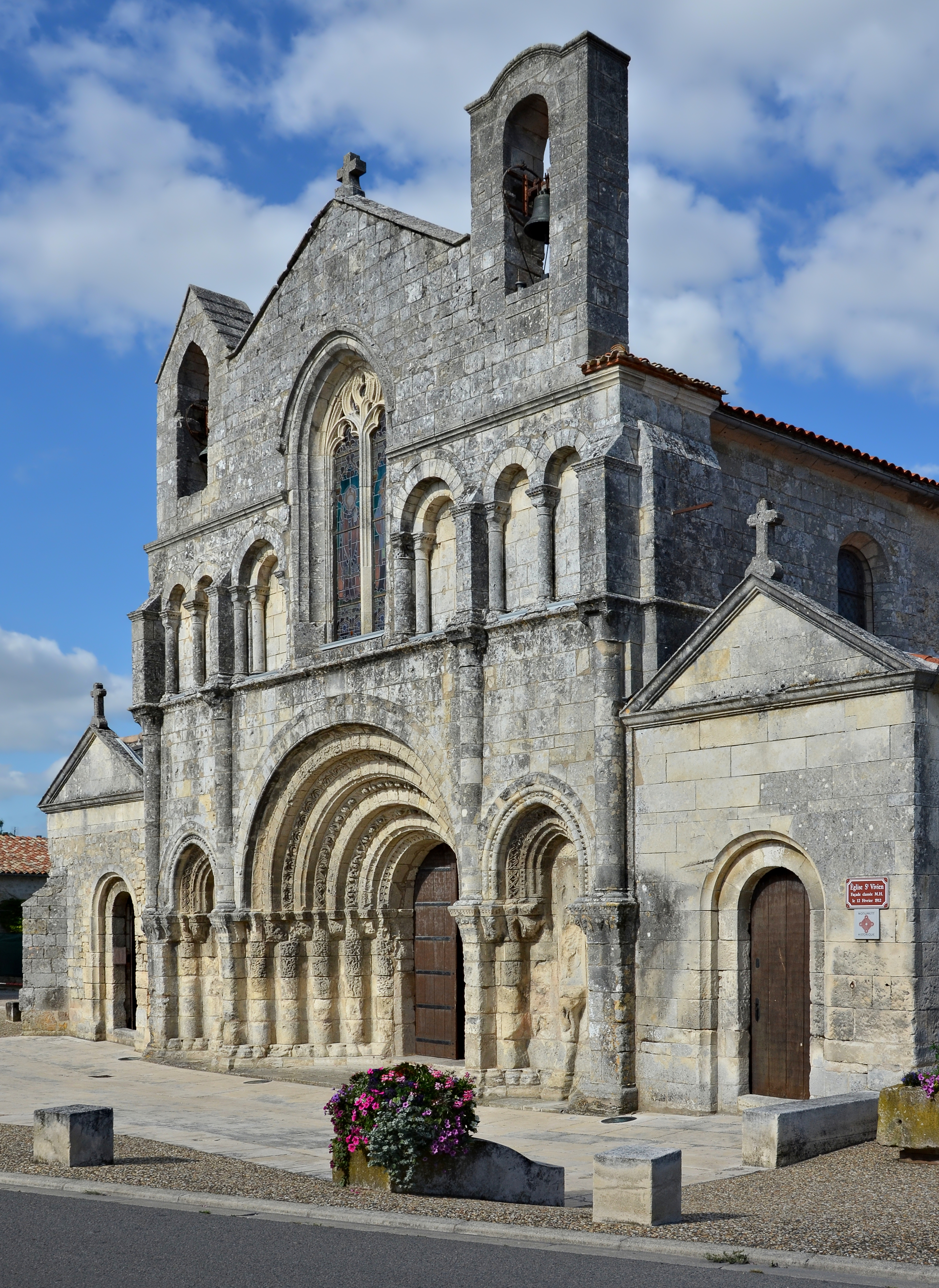 Facade of the church of Pons, Charente-Maritime, France.